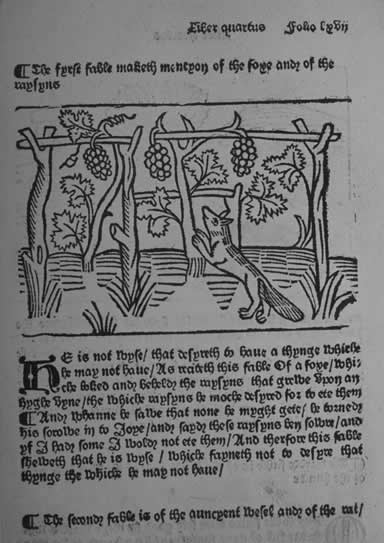 Page from William Caxton's Aesop Fables, 1484. The image shows one of the earliest printed book illustrations, 'Fox and Grapes' from Aesop’s Fables, printed by William Caxton in 1484.